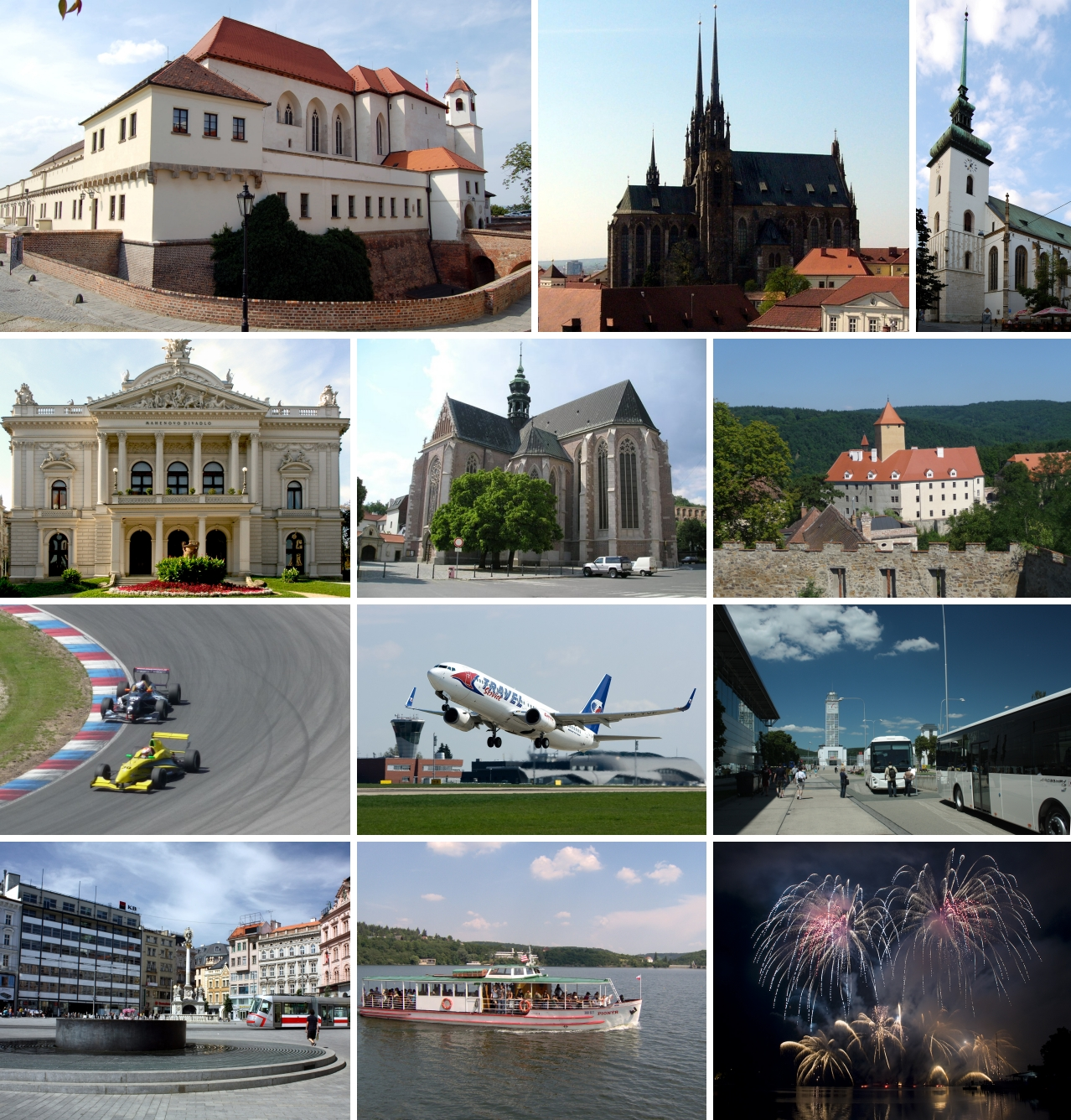 Spilberk Castle, Brno. Cathedral of St. Peter and Paul in Brno, view from the townhall tower.